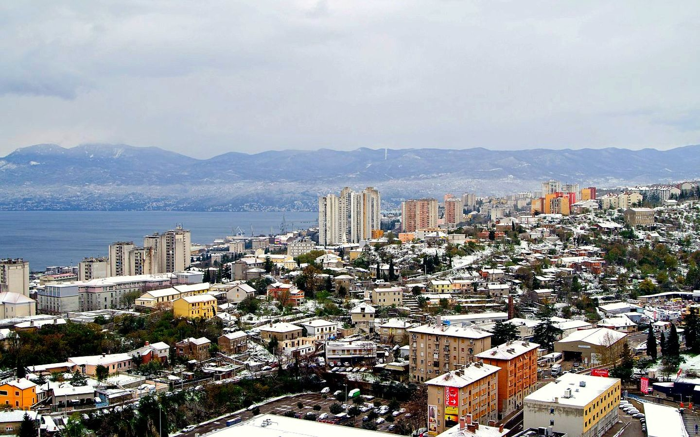 The view from 18 floors, Rastočina - Snow Rijeka